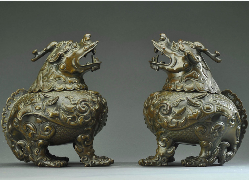 A pair of pixiu censors from Qianlong period.